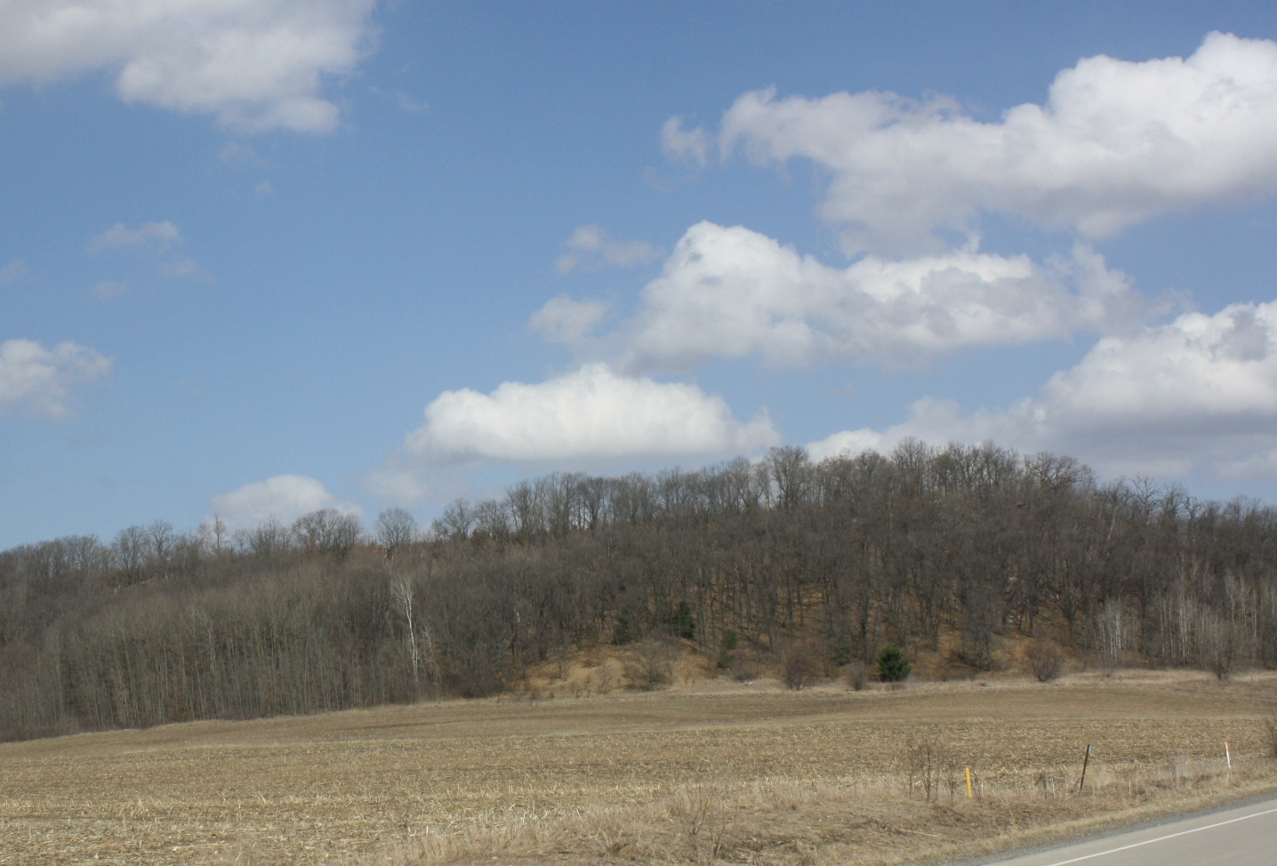 Looking northwest at the hill of the Silver Mound Archeological District from Wisconsin Highway 95.